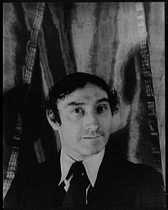 Title: Portrait of [...] Escudero Abstract: 1 photographic print : gelatin silver.